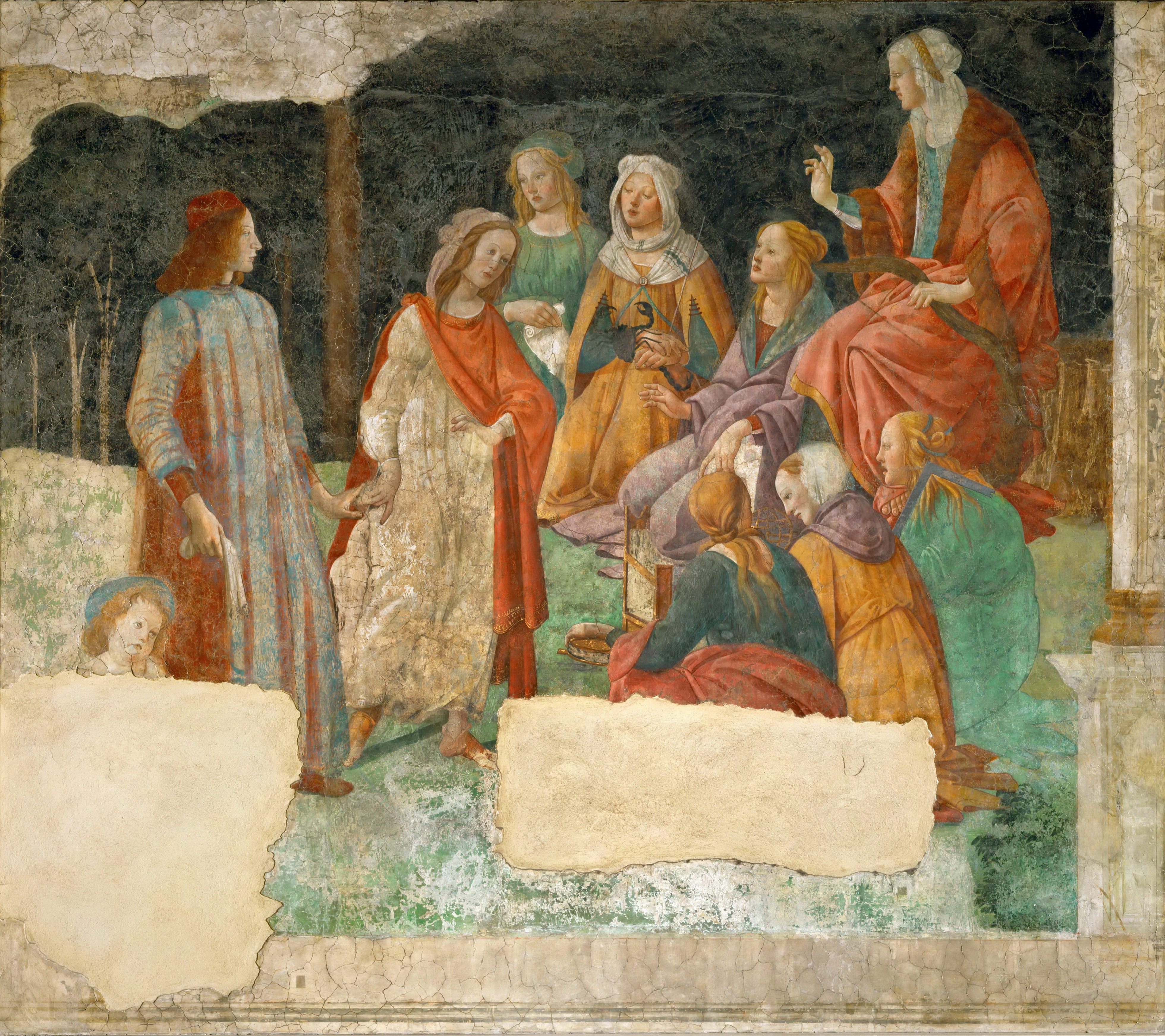 This fresco, along with RF 321 was discovered at Villa Lemmi, near Florence in 1873. They could have been commisssionned for the marriage of Nanna di Niccolò Tornabuoni and Matteo di Andrea Albizzi. The young man on the painting, who may be the groom, is introduced to the Seven liberal arts by Venus (or Minerva)[1].